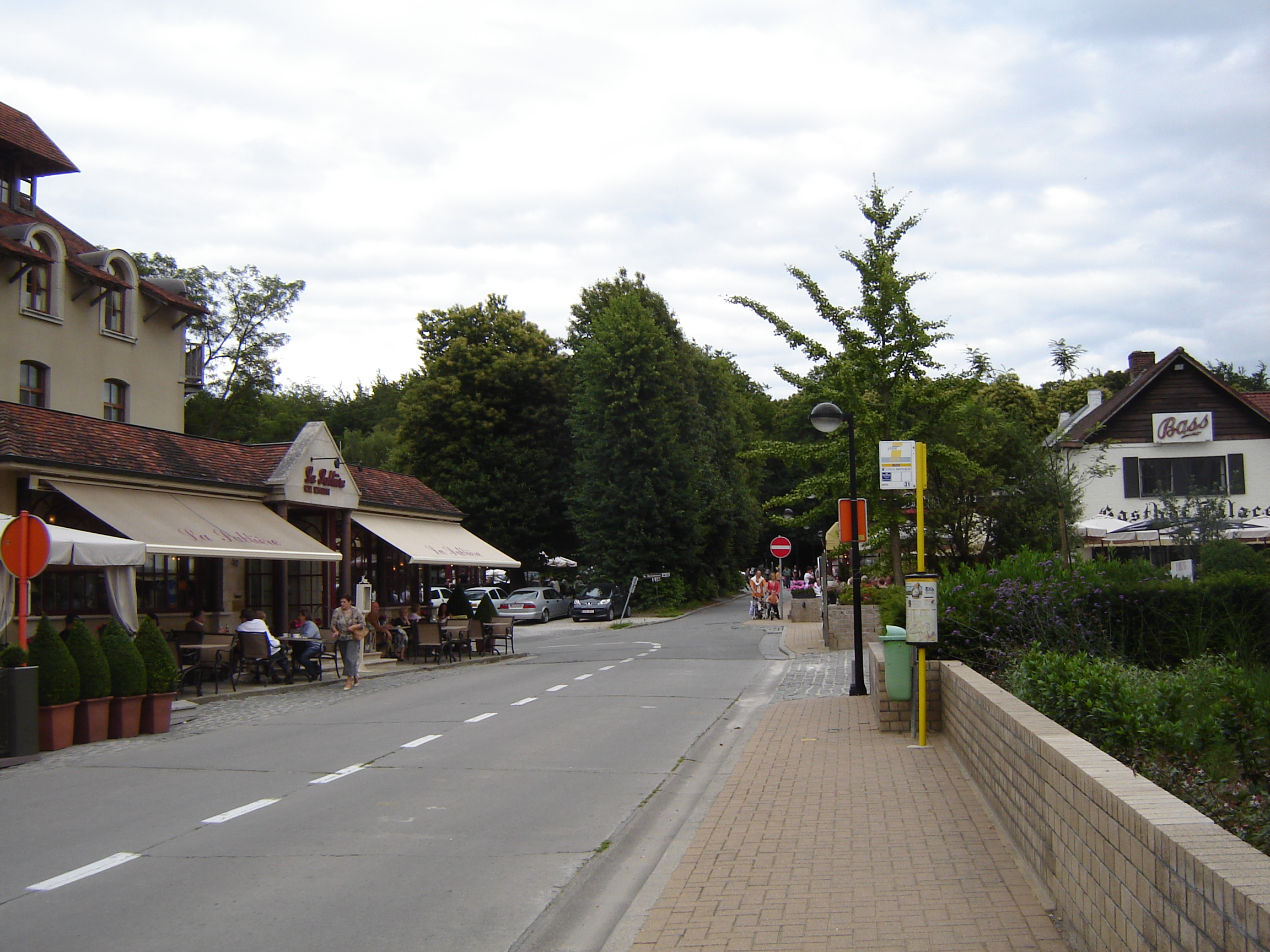 Tourist tearooms and restaurants on the top of the Kluisberg / Mont de l'Enclus hill. Orroir, Mont-de-l'Enclus, Hainaut, Belgium.